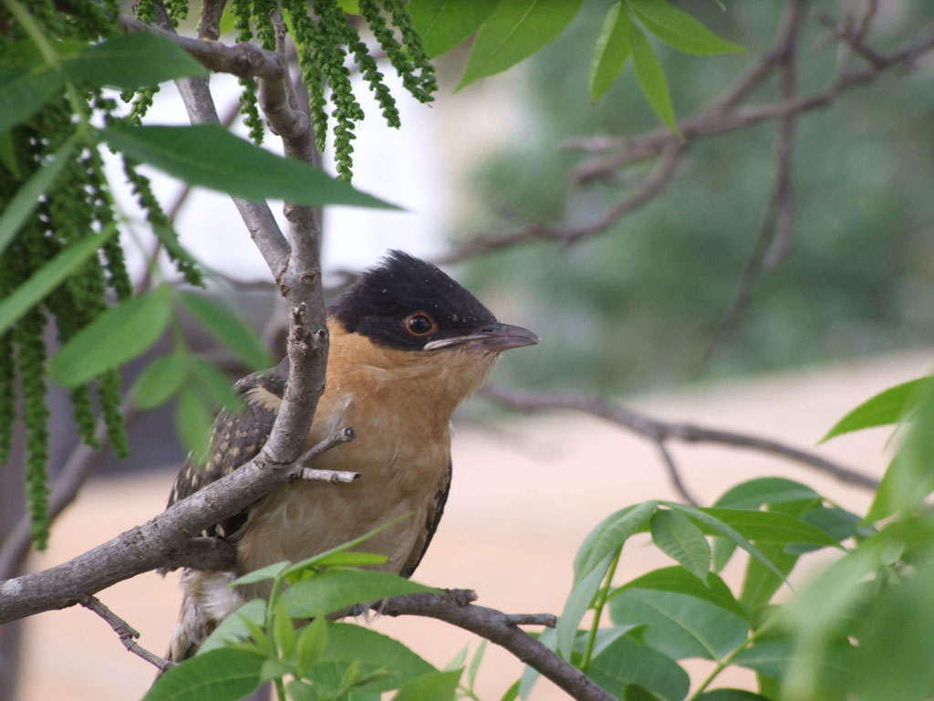 Clamator glandarius, Great Spotted Cuckoo